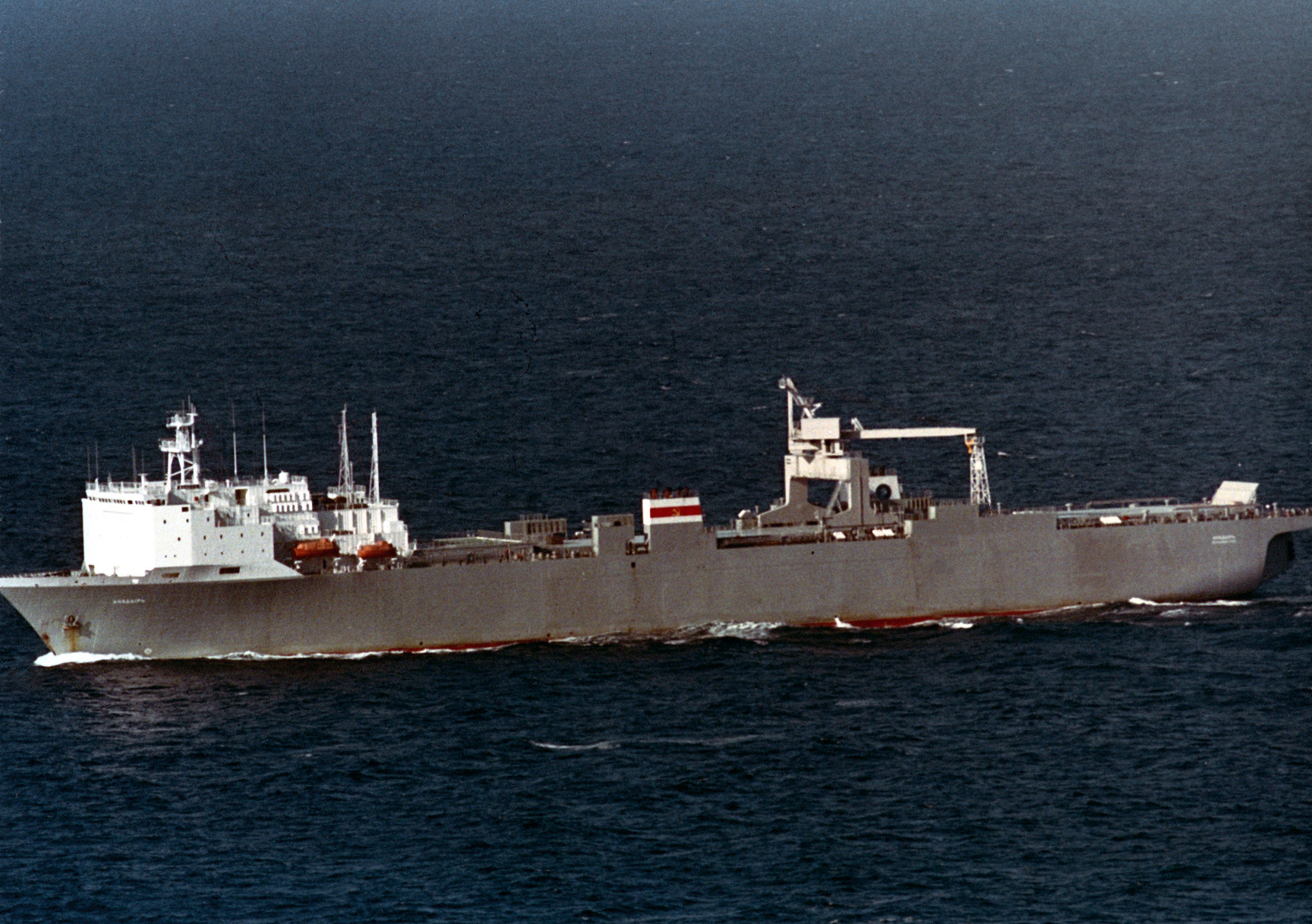 A port view of the Soviet HEAVY LIFT cargo ship ANADYR underway. The 741-foot, 34,151-ton ship has a floodable docking well 419 feet long by 59 feet wide, a 120-ton traveling crane and two helicopter hangars. Up to 868 standard 20-foot containers can be stacked on portable panels atop the cargo well, which has a 60-ton capacity ramp at the aft end to permit loading vehicle cargo. Ship Built by Wartsila, Helsinki, Finland Date of launch: 10.1982 Additional work by a Swedish yard Date of completion: 1990 LPP: 226.1 m Beam: 30 m Draft: 6.5 m DWT 12.765 GRT 34.151 Main engines: 4x Wartisla Vasa 32.600 bhp Speed: 20 kn History 1988 Named: ANADYR Flag: Russia 1996 Broken up, parts used for a floating dock